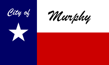 The official city flag of Murphy, Texas, consisting of the words "CITY OF MURPHY" emblazoned onto the Texas state flag.